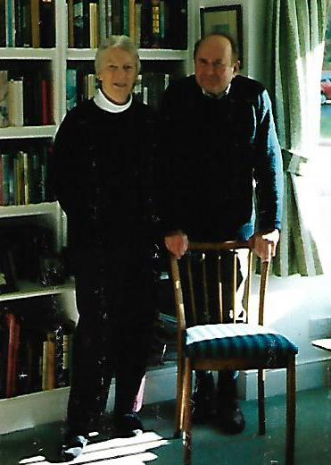 This is my photograph of Sir Graham Hills and Lady Mary Hills. It was taken by me in their Inverness home in March 2000.